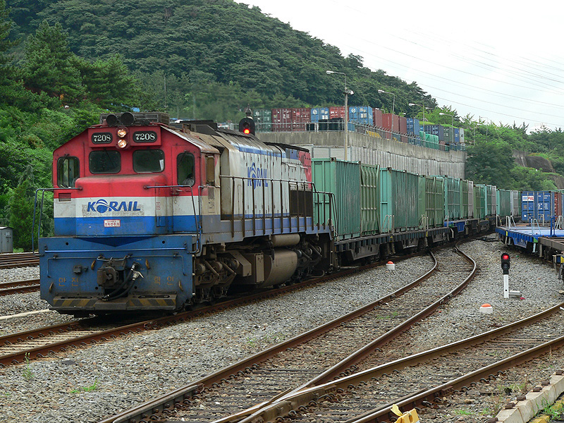 KORAIL 7200series diesel-electric locomotive